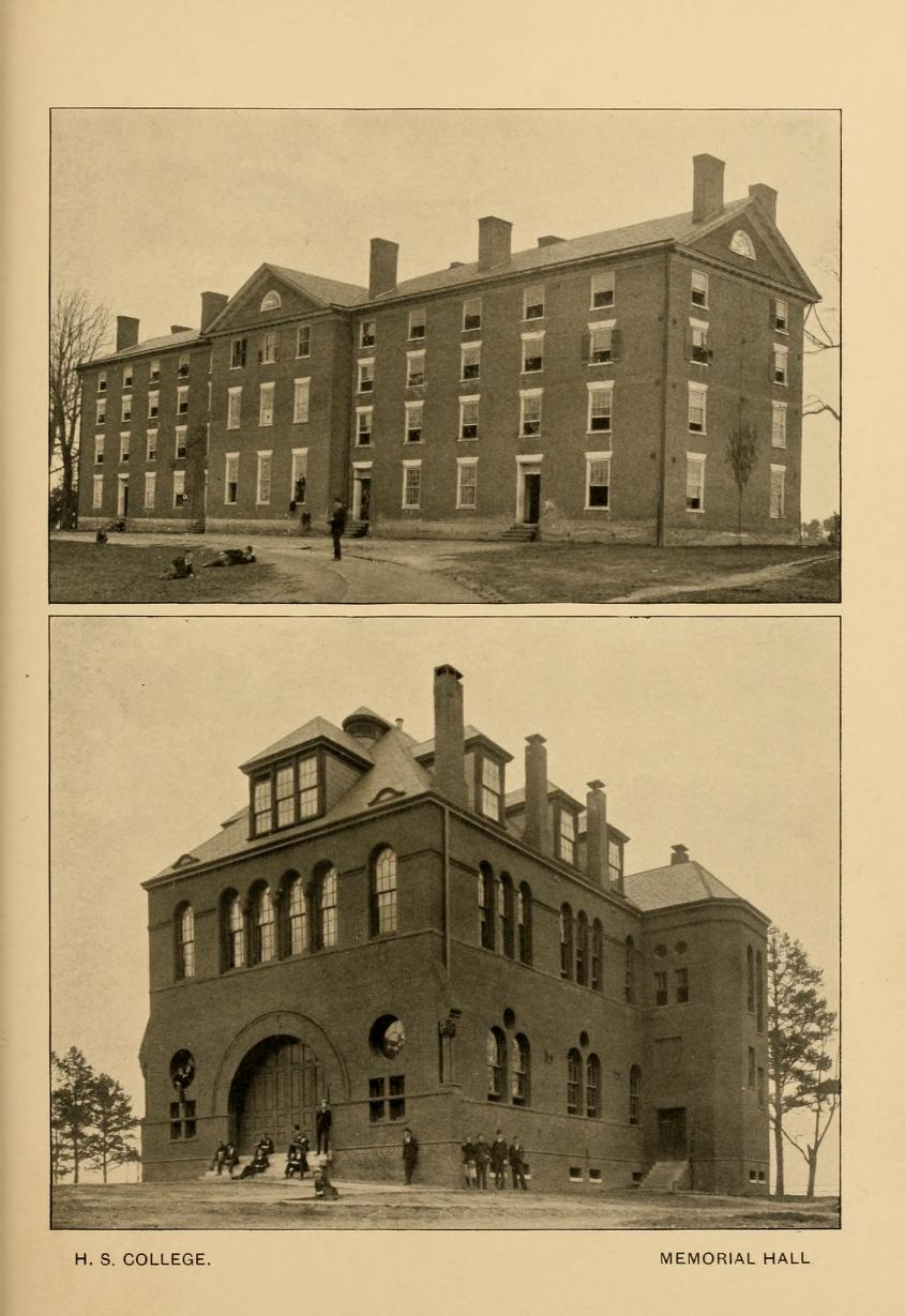 Hampden–Sydney College in 1894 Other information From H-SC yearbook, The Kaleidoscope (1894)